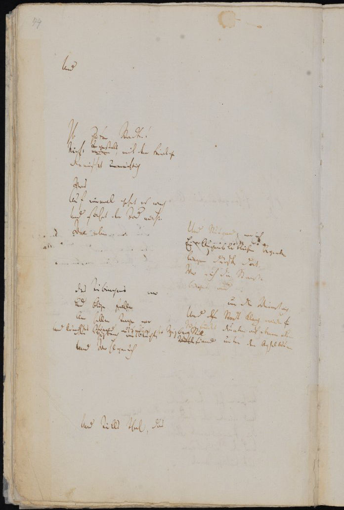 Page 44 of "Homburger Folioheft"